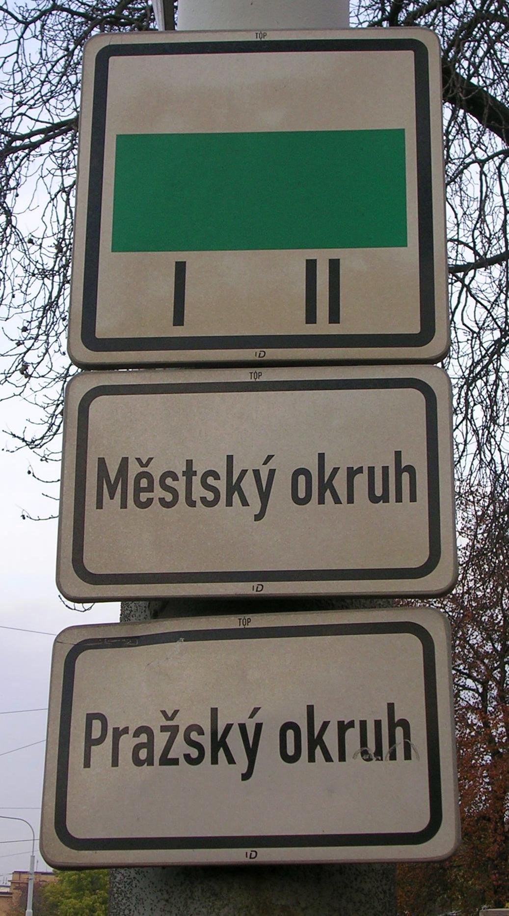 Dejvice, Prague, the Czech Republic.